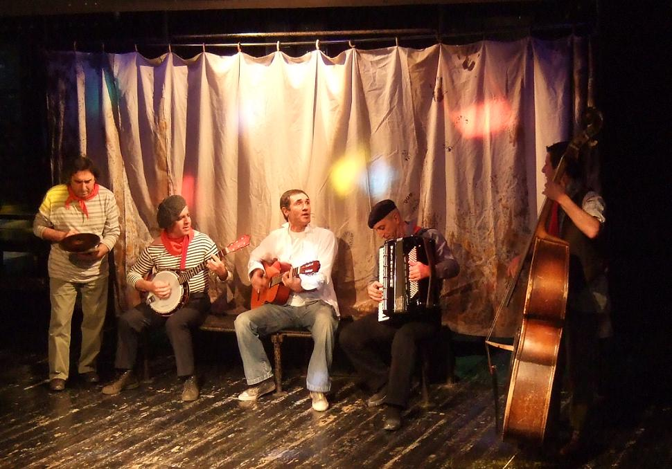 Vardan Petrosyan, Armenian stand-up comedian, performing at Kamerayin Tatron in Yerevan, Armenia